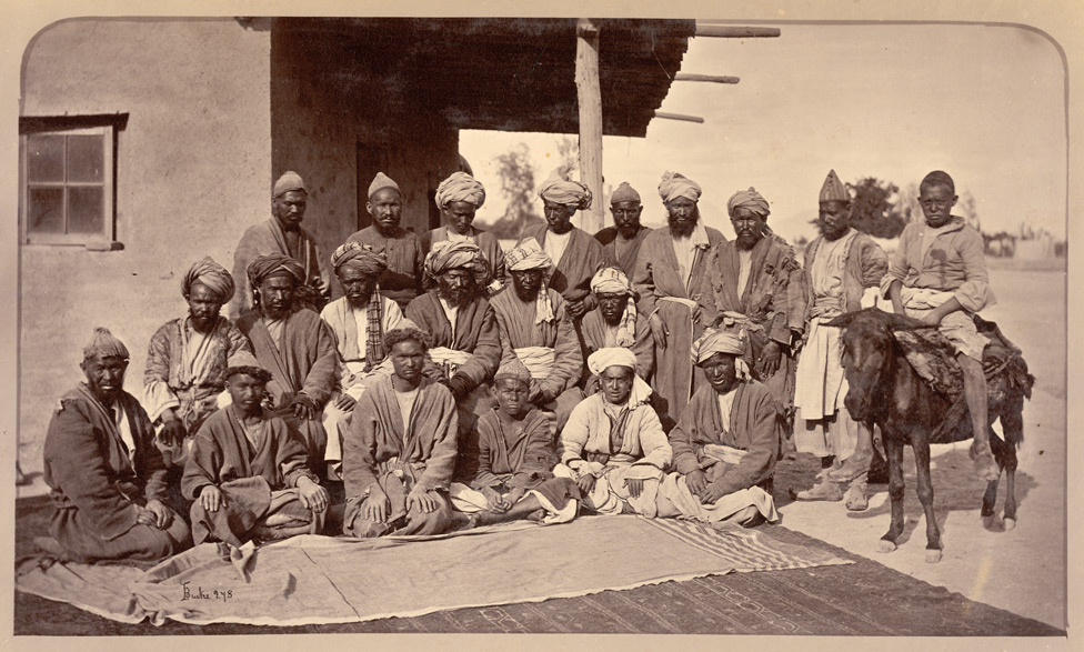 Behsudi Hazara Chiefs (Hazaras of Behsud) Photograph, a posed group portrait of Besudi Hazara chieftains taken by John Burke in 1879-80, possibly at Kabul in Afghanistan. Burke accompanied the British army into Afghanistan in 1878 and worked steadily in the hostile environment of Afghanistan and the North West Frontier Province, recording military and topographical scenes as well as the peoples of the country during the Second Afghan War (1878-80). Burke also photographed many darbars or meetings that took place between British combat leaders and Afghan chiefs which led to the uneasy peace treaties characteristic of the campaign. His two-year Afghan expedition produced a visual document which resulted in his achieving significance as the photographer of the region of the Great Game (the Anglo-Russian territorial rivalry).